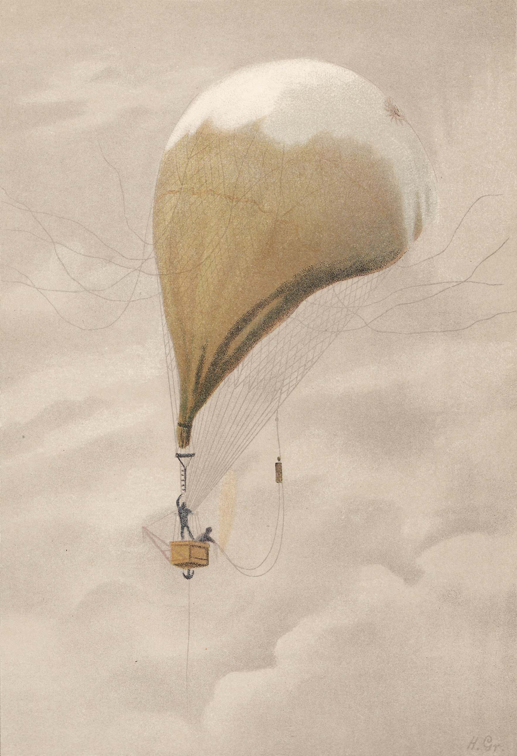 Crash of balloon Humboldt on March 14, 1893, Drawn by Hans Groß